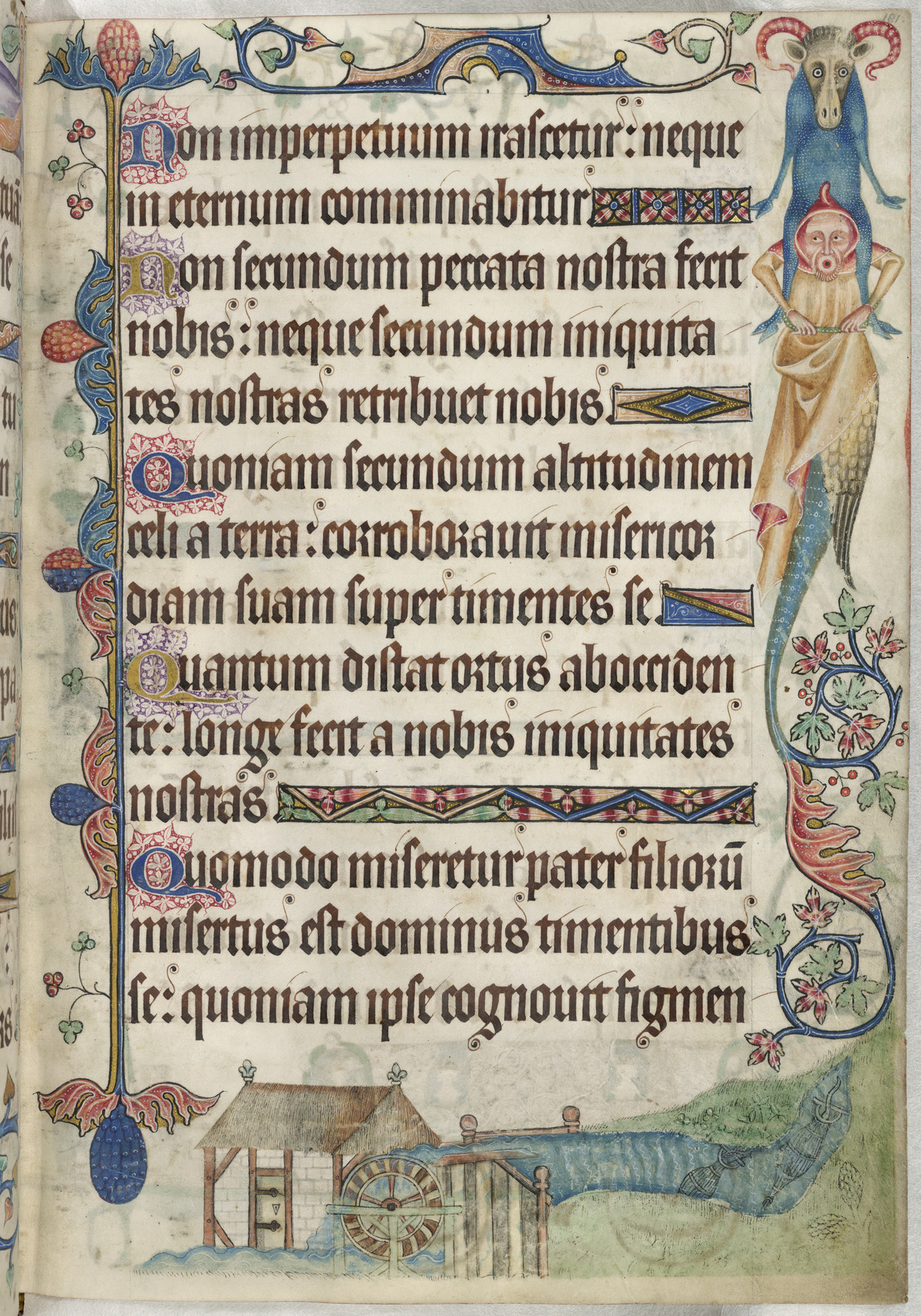 Psalm 103; a watermill [Whole folio] Psalm 103. Border decoration, with a grotesque in the outer margin consisting of a surprised man with winged serpent's body holding a blue ram on his shoulders. In the lower margin is a watermill; a brick building with wooden framework. The waterwheel is in a narrow stream formed by a wooden dam placed across the greater part of the river; fish nets and eel traps are visible beneath the waters of the mill leat